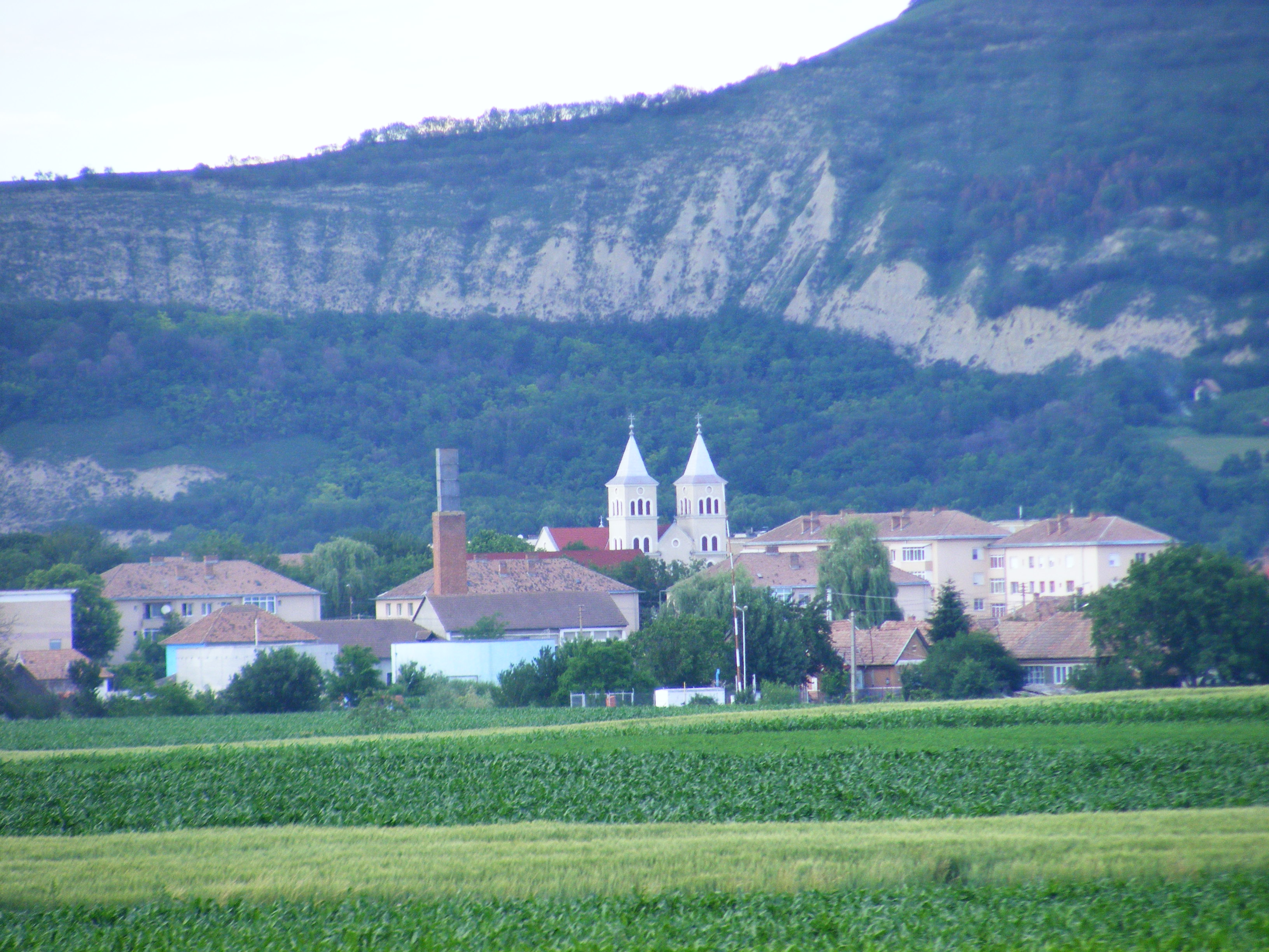 Wiev of Iernut (Radnót), Romania, Mureş County